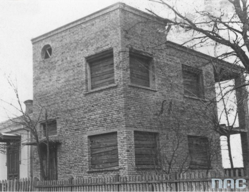 House